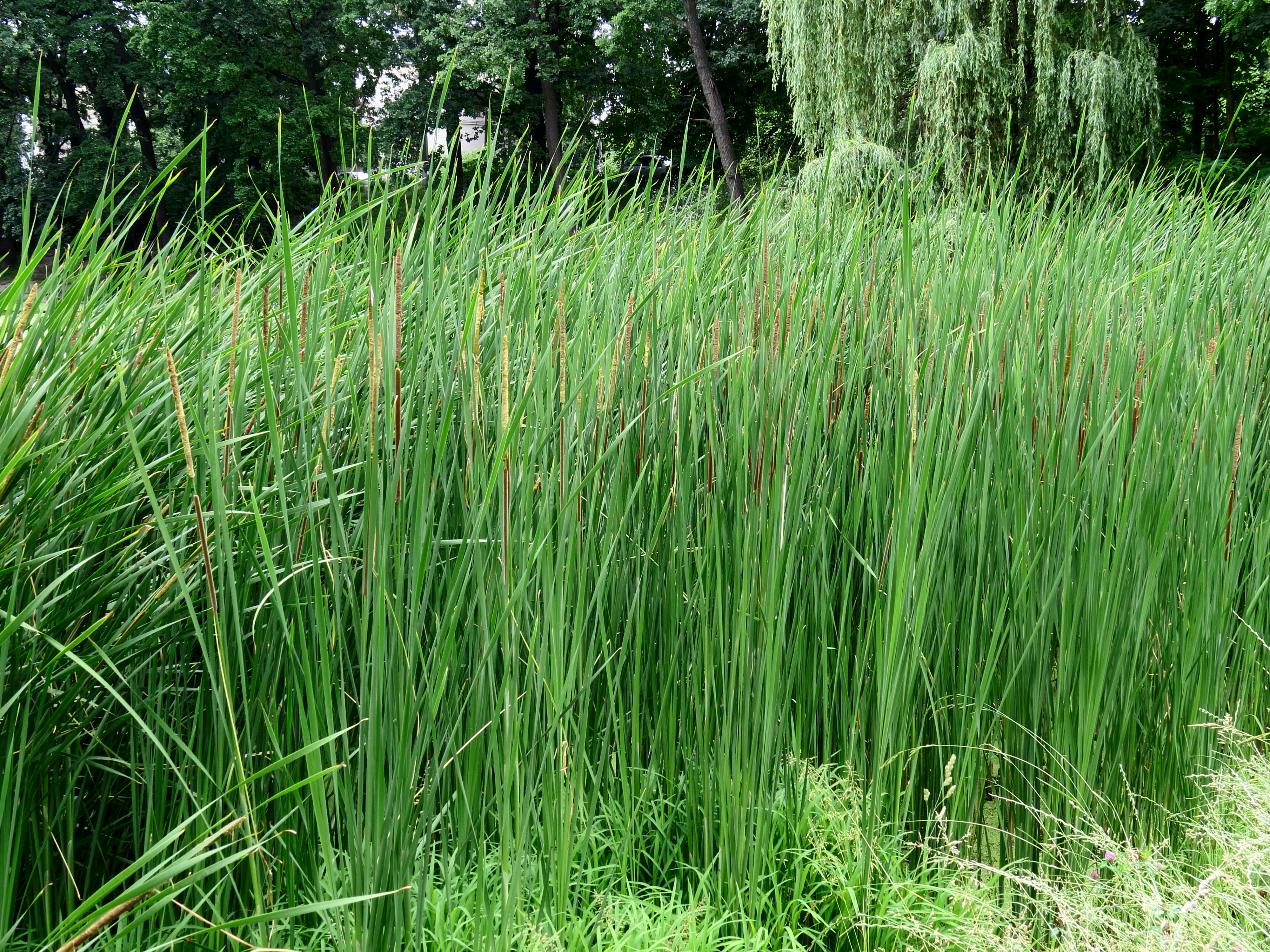 Typha angustifolia in Nyvky park, Kiev, Ukraine